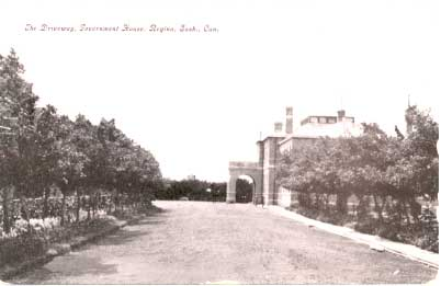 Driveway to Government House of Saskatchewan